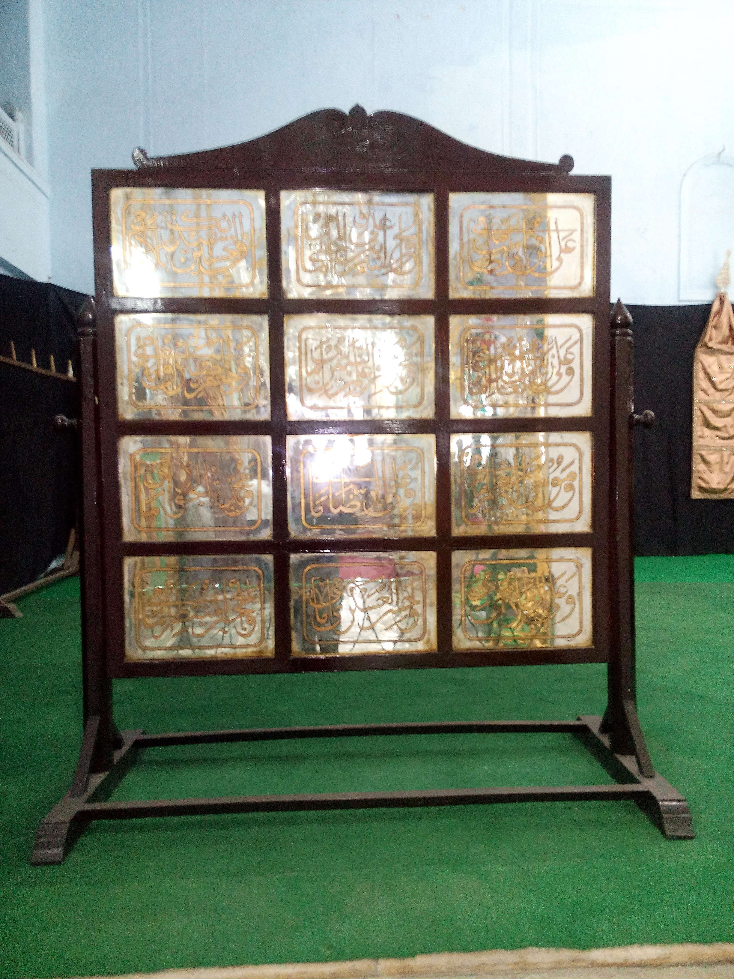 The name of 12 imams written in Arabic Language